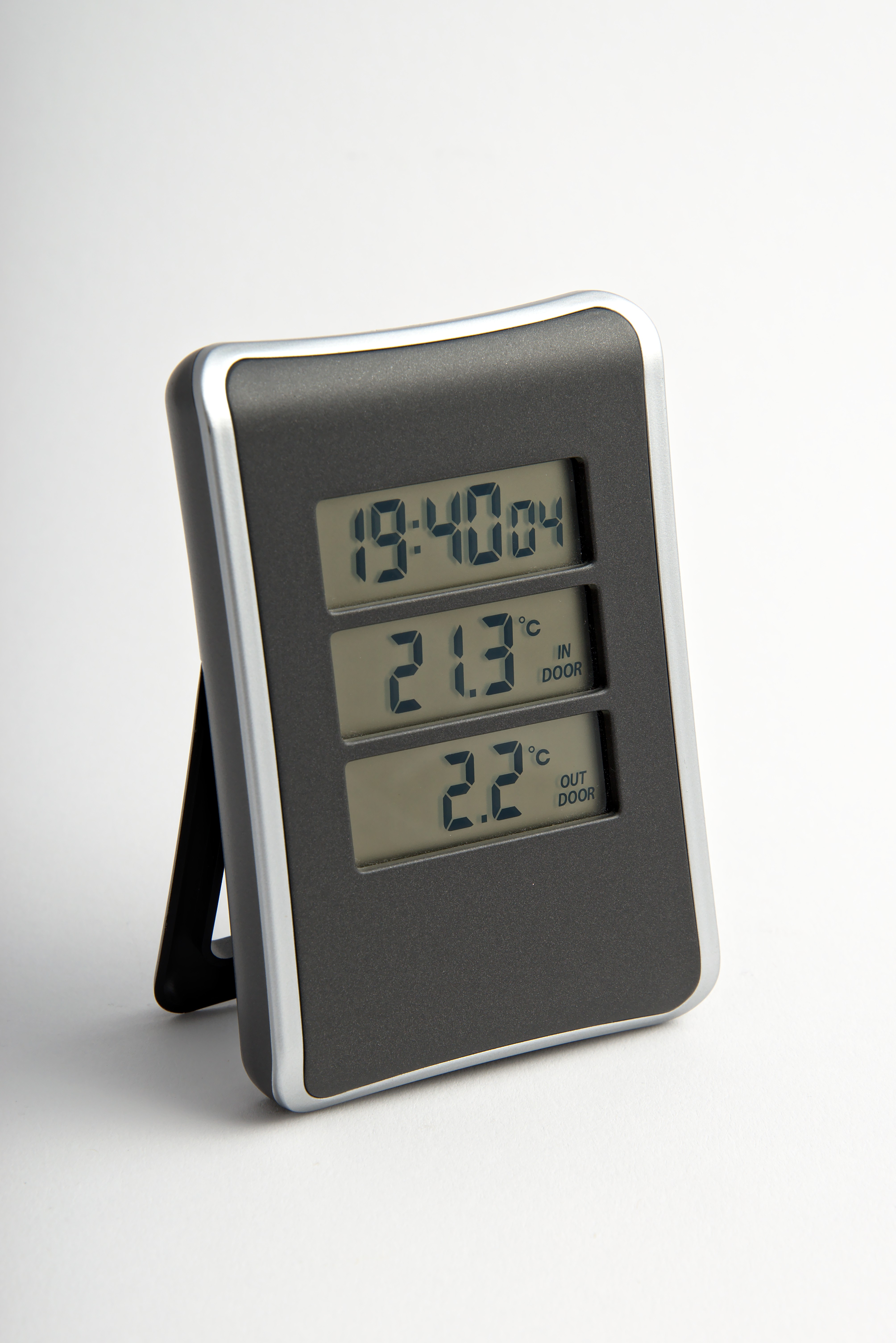 Display for a wireless thermometer.